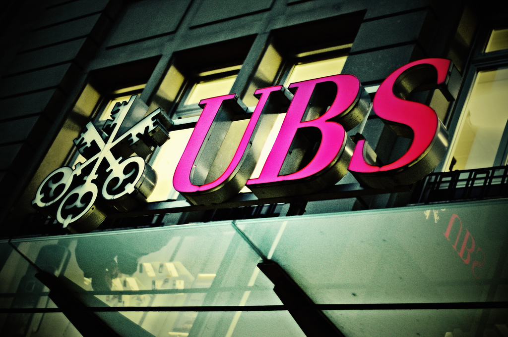 UBS sign featuring logo including three keys